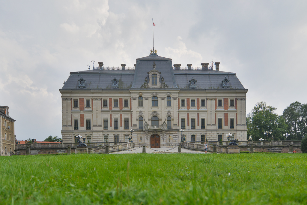 Castle in Pszczyna, silesian voivodeship, Poland